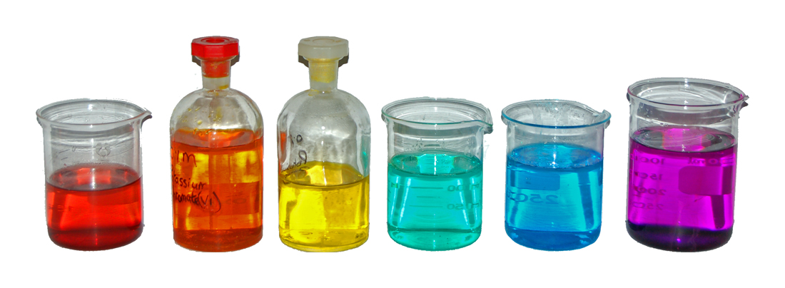 From left to right, aqueous solutions of: cobalt(II) nitrate, Co(NO3)2 (red); potassium dichromate, K2Cr2O7 (orange); potassium chromate, K2CrO4 (yellow); nickel(II) chloride, NiCl2 (green); copper(II) sulfate, CuSO4 (blue); potassium permanganate, KMnO4 (violet).